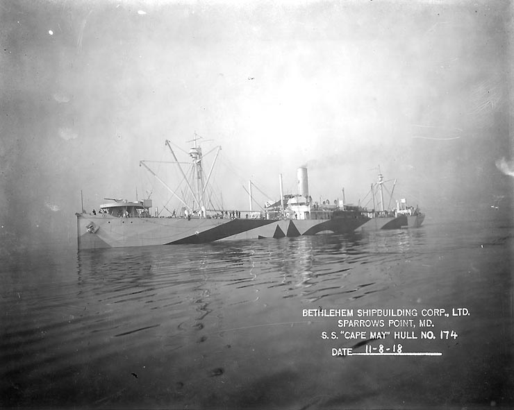 US Navy cargo ship USS Cape May (ID-3520) off the Bethlehem Shipbuilding Company shipyard at Sparrows Point, Maryland.